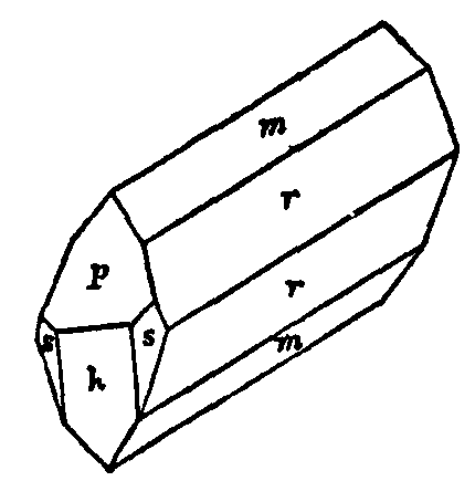 Illustration from 1911 Encyclopædia Britannica, article BARYTOCALCITE. The crystals belong to the monoclinic system and are usually prismatic or blade-shaped in habit. The hardness is 4, and the sp. gr. 3.65. There are perfect cleavages parallel to the prism faces inclined at an angle of 73° 6′, and a less perfect cleavage parallel to the basal plane, the angle between which and the prism faces is 77° 6′; the angles between these three cleavages thus approximate to the angles (74° 55′) between the three cleavages of calcite, and there are other points of superficial resemblance between these two minerals. Chemically, barytocalcite is a double salt of barium and calcium carbonates, BaCa(CO3)2.